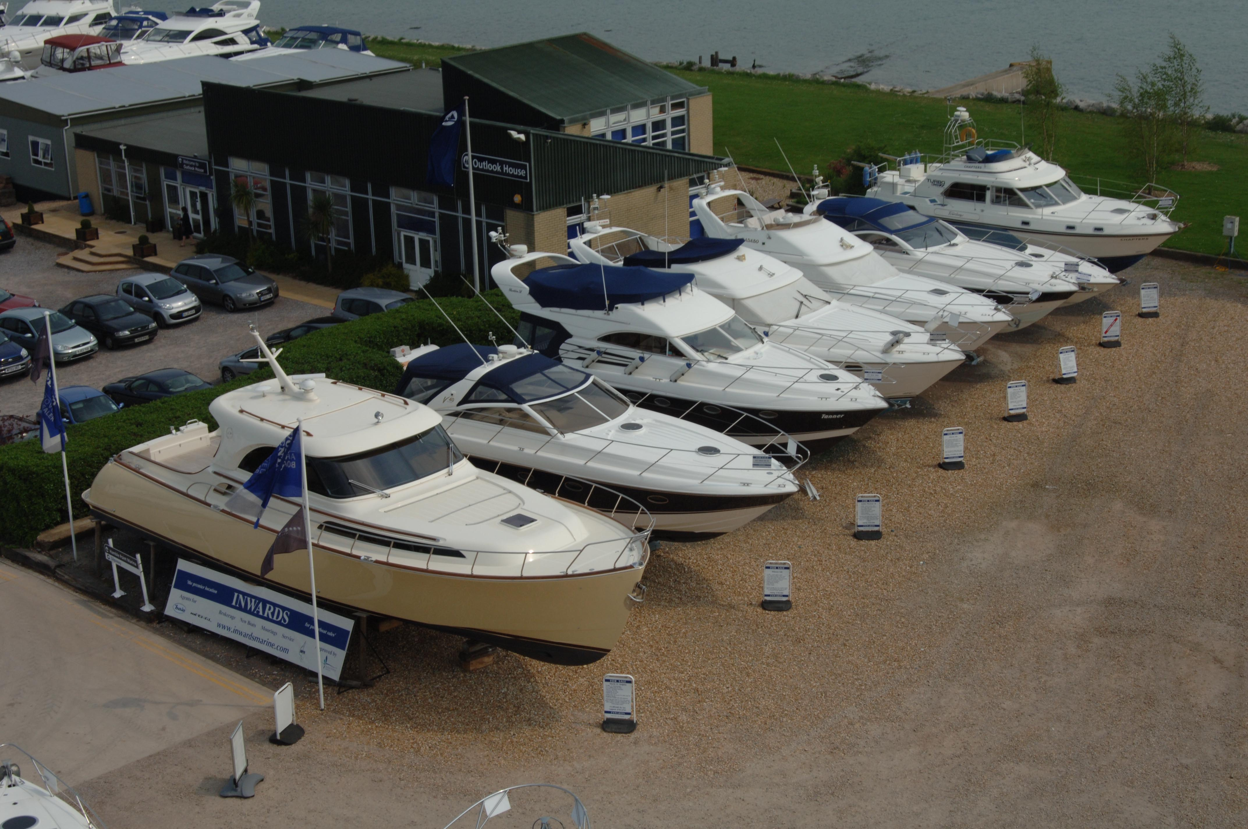 Inwards display site